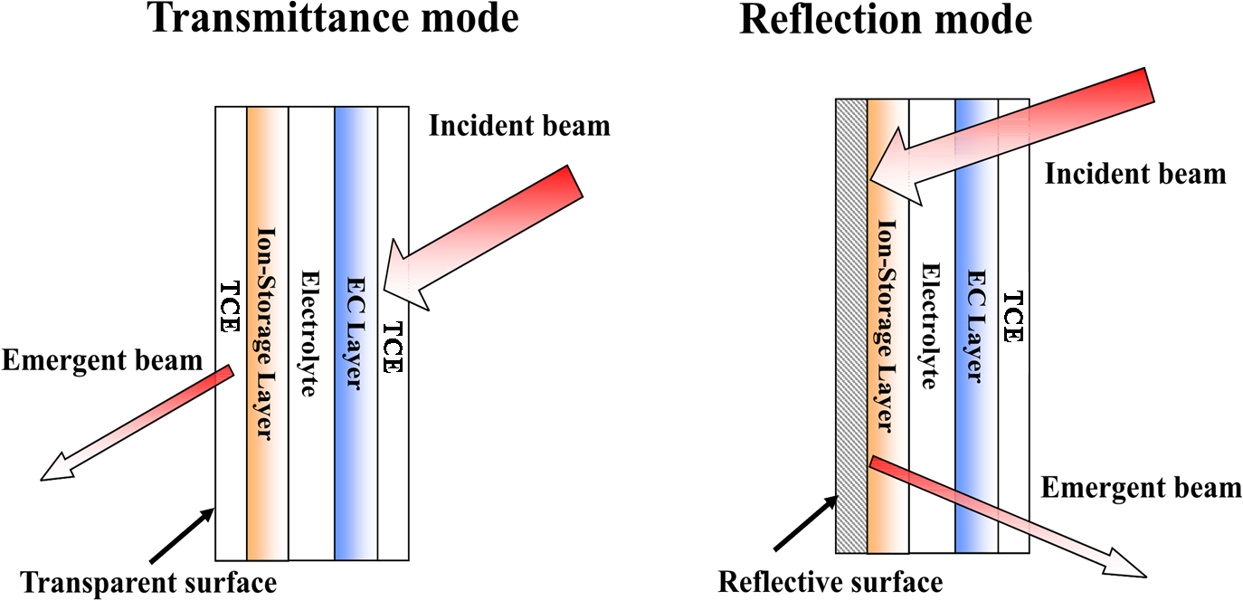 Schematic representation of an ECD operating in transmission mode and reflectance mode